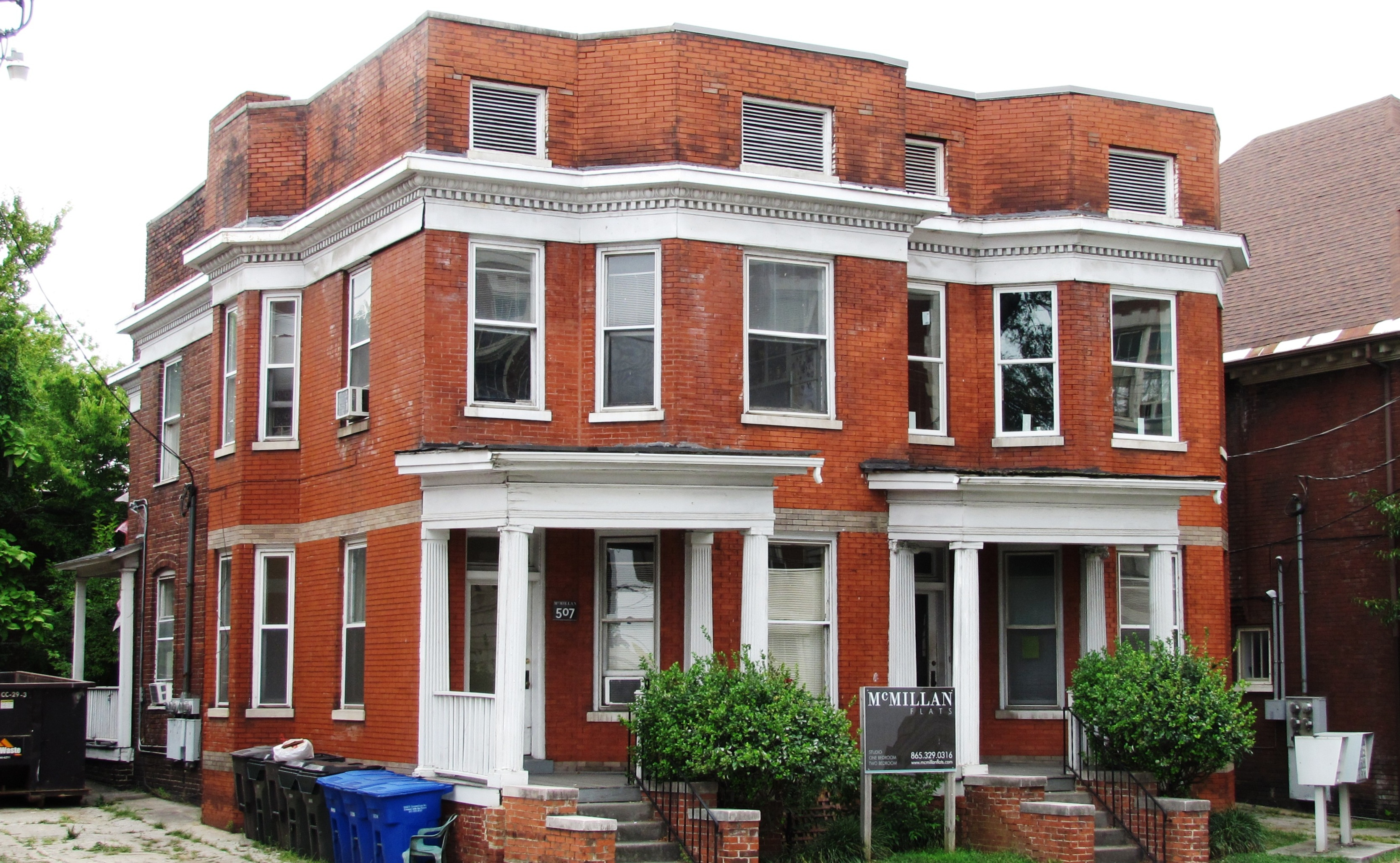 Row house at 507-509 N. Central Street in Knoxville, Tennessee, USA. Built around 1905, this building is a contributing structure within the NRHP-listed Emory Place Historic District.